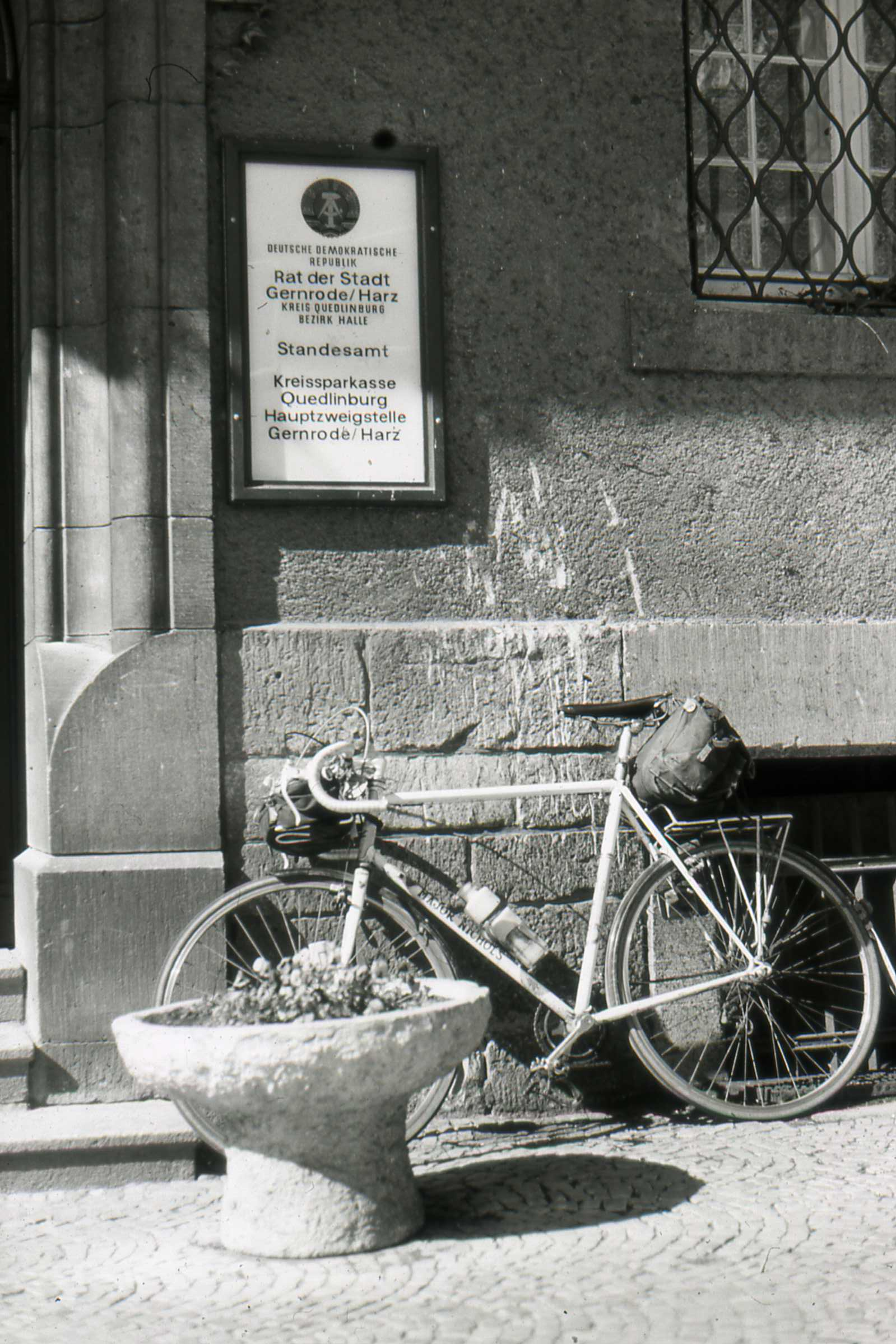 Taken on ORWO Up15 black and white slide film,. The Staatswappen of the GDR are on the town hall sign.